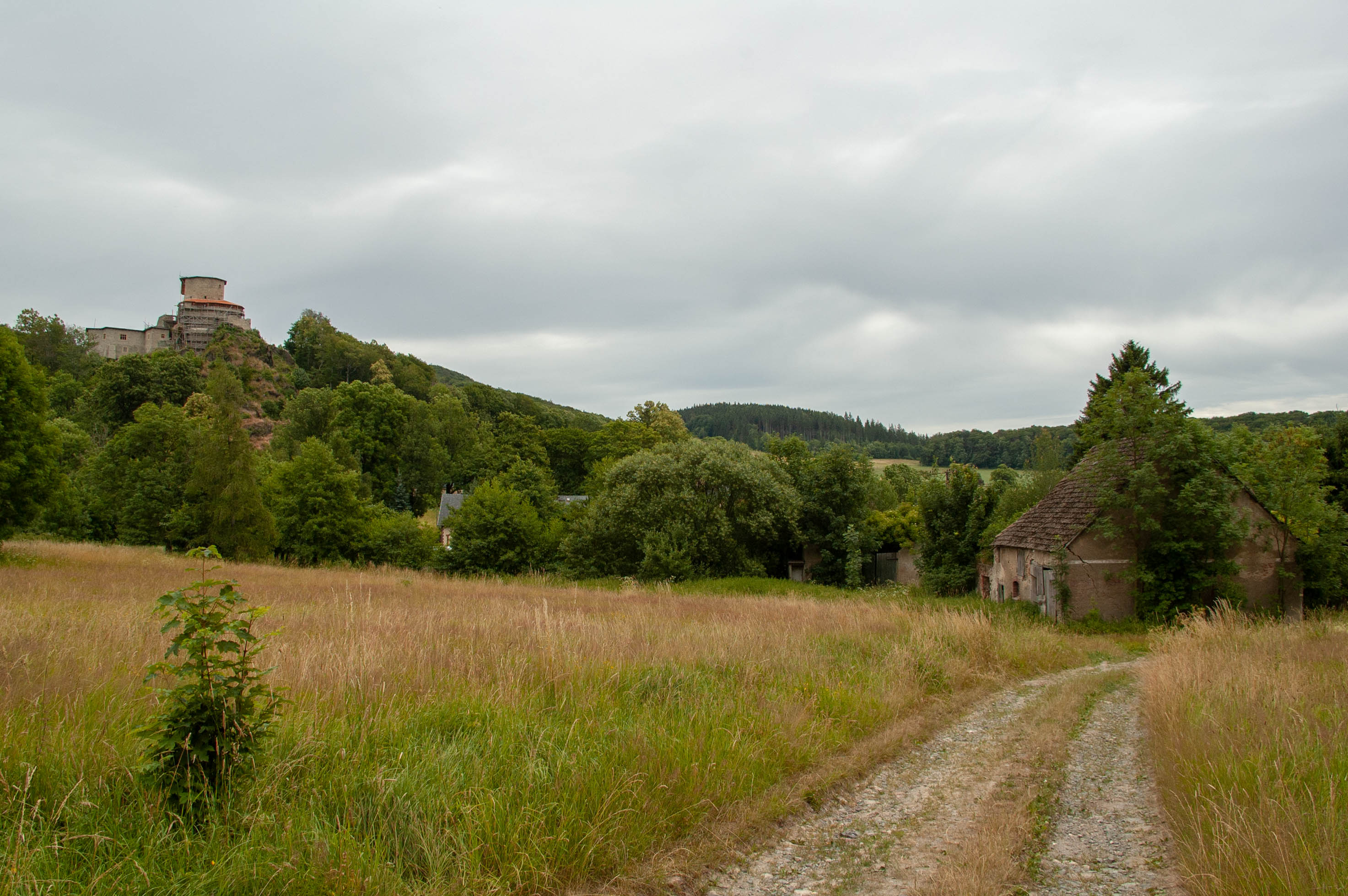 This photograph was created as a part of Wikiexpedition Lower Silesia, a project supported by Wikimedia Poland grant.